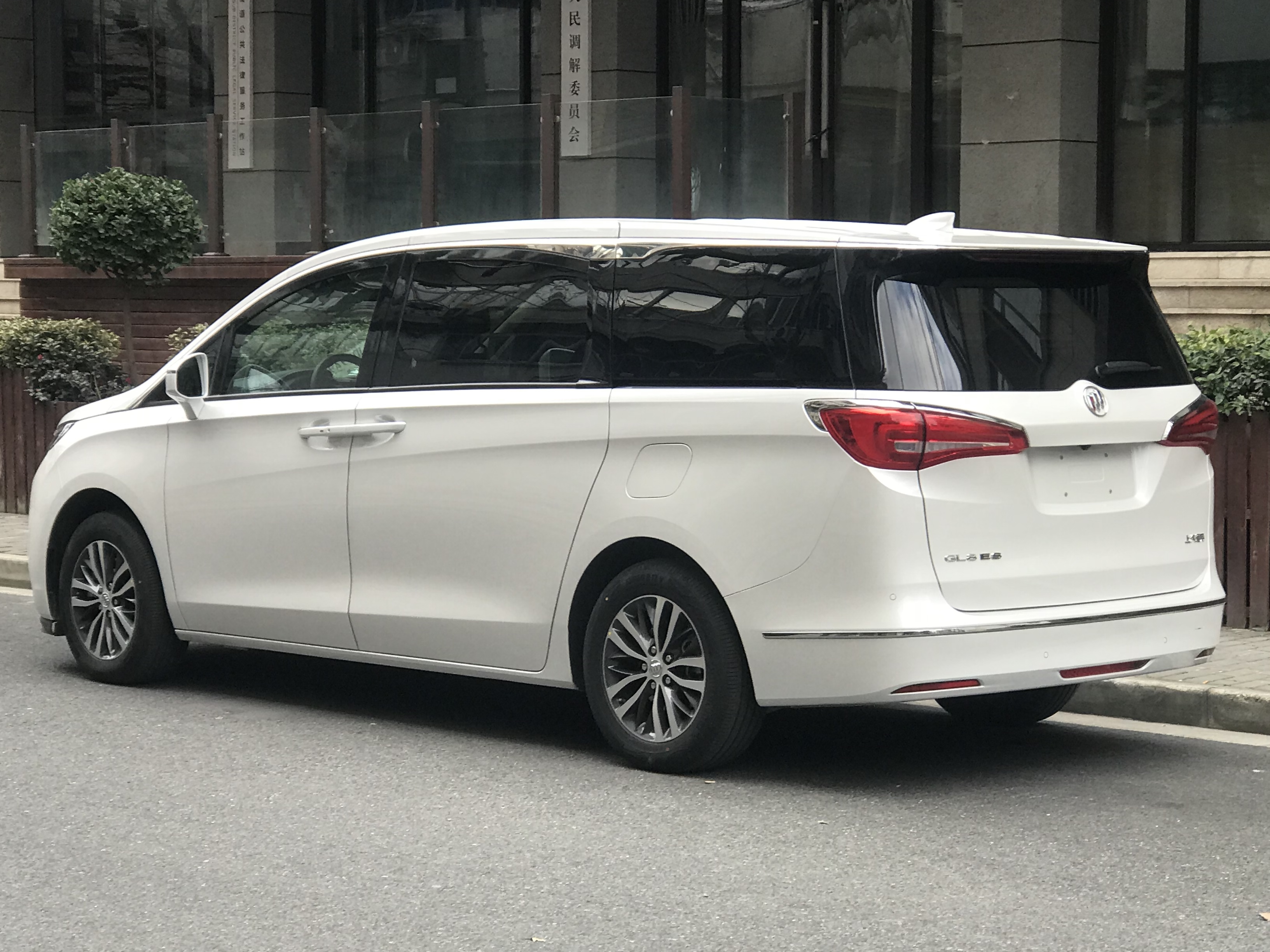 Buick GL8 third generation rear